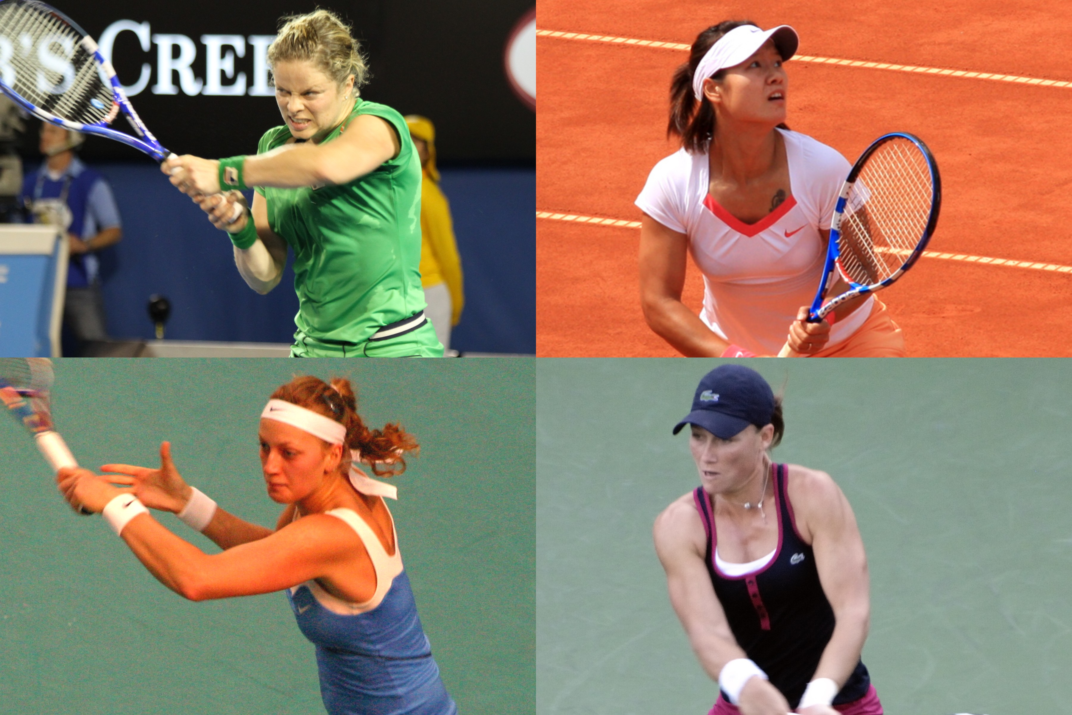 Grand Slam women's singles champions of 2011: Australian Open titlist Kim Clijsters (top left), French Open winner Li Na (top right), Wimbledon champion Petra Kvitová (bottom left), and US Open winner Samantha Stosur (bottom right).